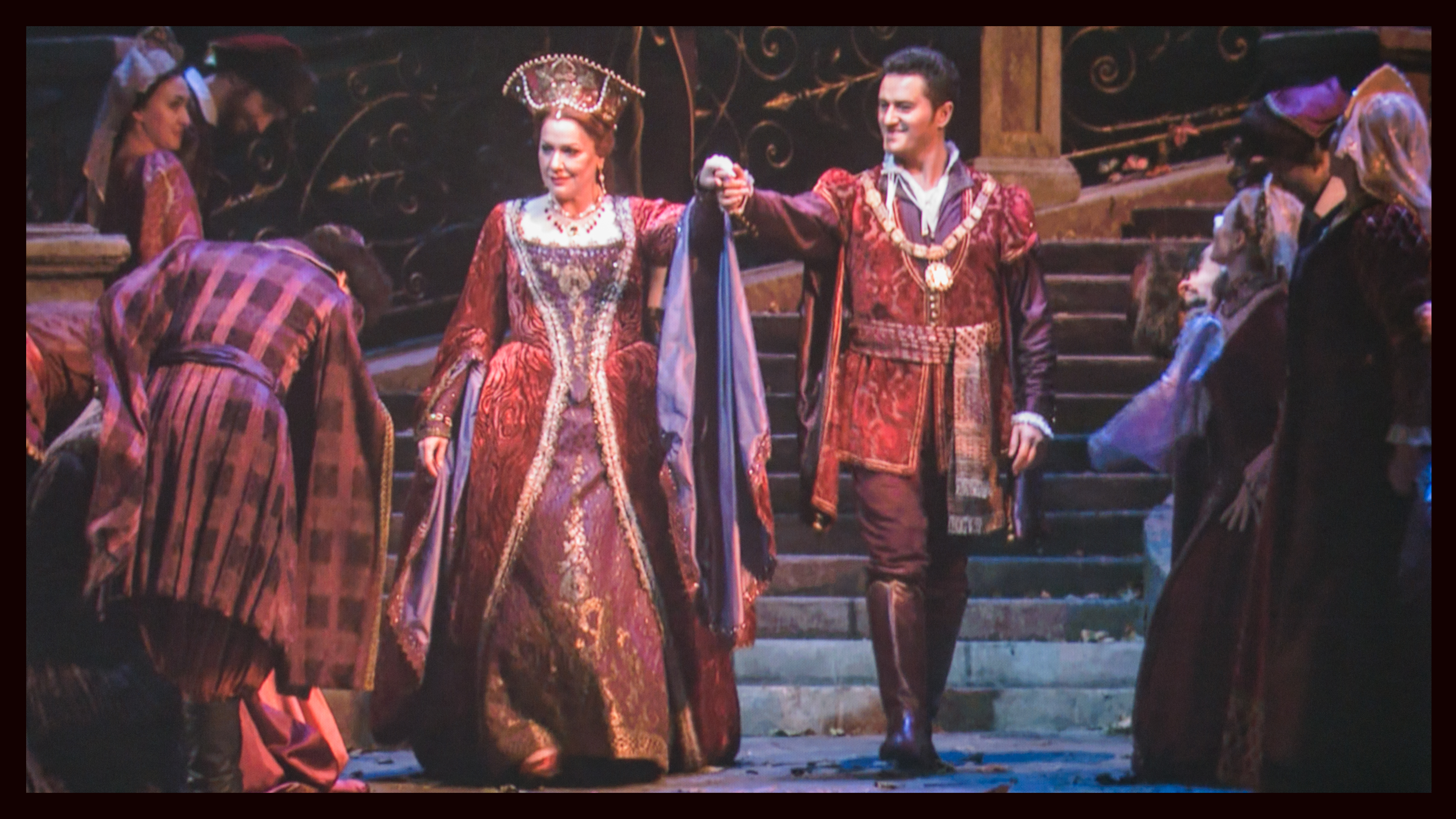 Rusalka at the Metropolitan Opera in New York